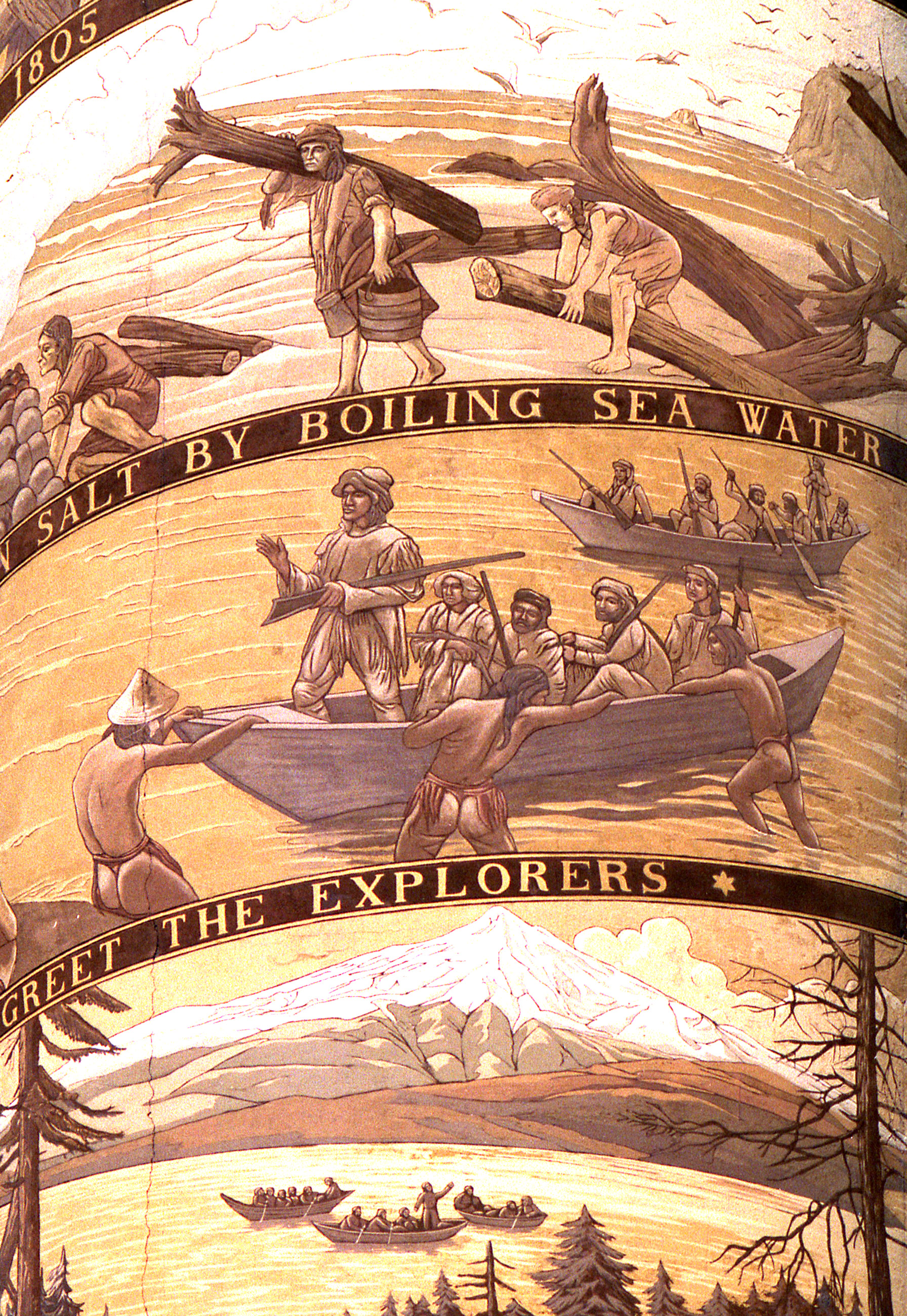 Astoria Column - Memorial for the explorers Lewis and Clark